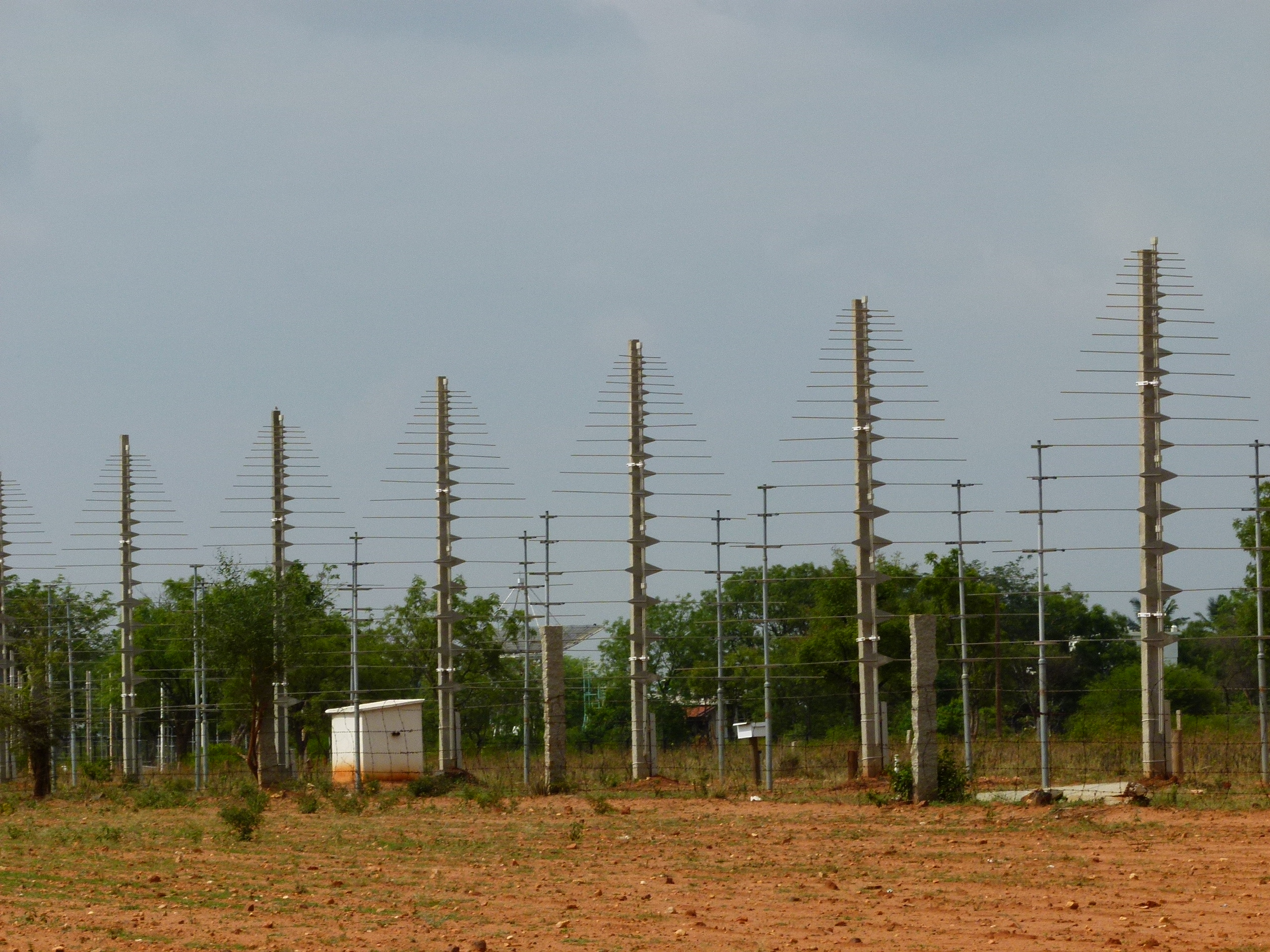 Part of the Gouribidanur radio observatory